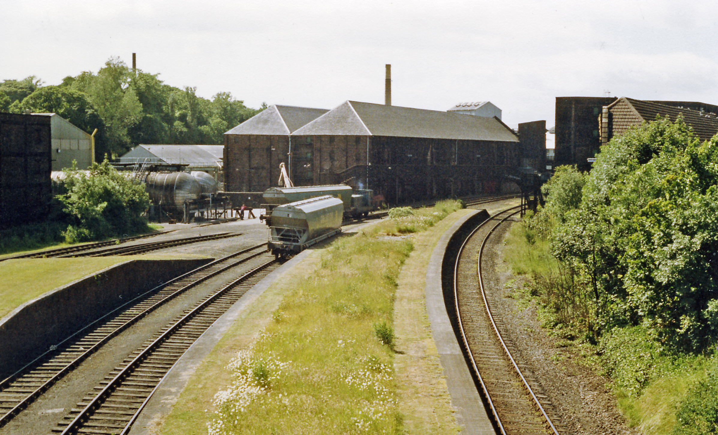 Remains of Cameron Bridge station, 1988. View westward, towards Thornton Junction: ex-NBR Thornton Junction - Leven - St Andrews line, also the branch to Methil. The Distillery is seen behind. Passenger services from Thornton Junction to Methil ceased from 10/1/65: Cameron Bridge station and the coast line to Leven, Anstruther and St Andrews was closed completely from 6/10/69. However, in 1988 the line through here was evidently still in use.